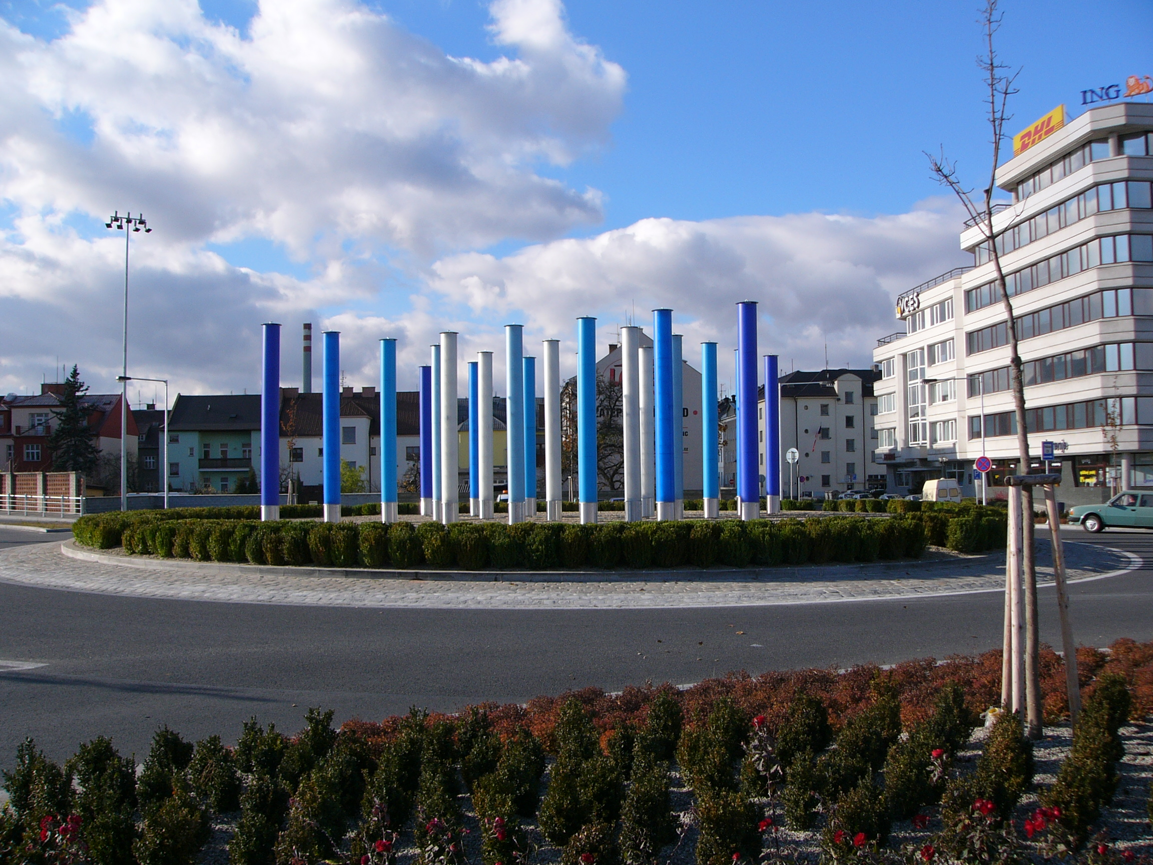 Unusual light fountain in circle crossroad in Olomouc (Czech Republic).